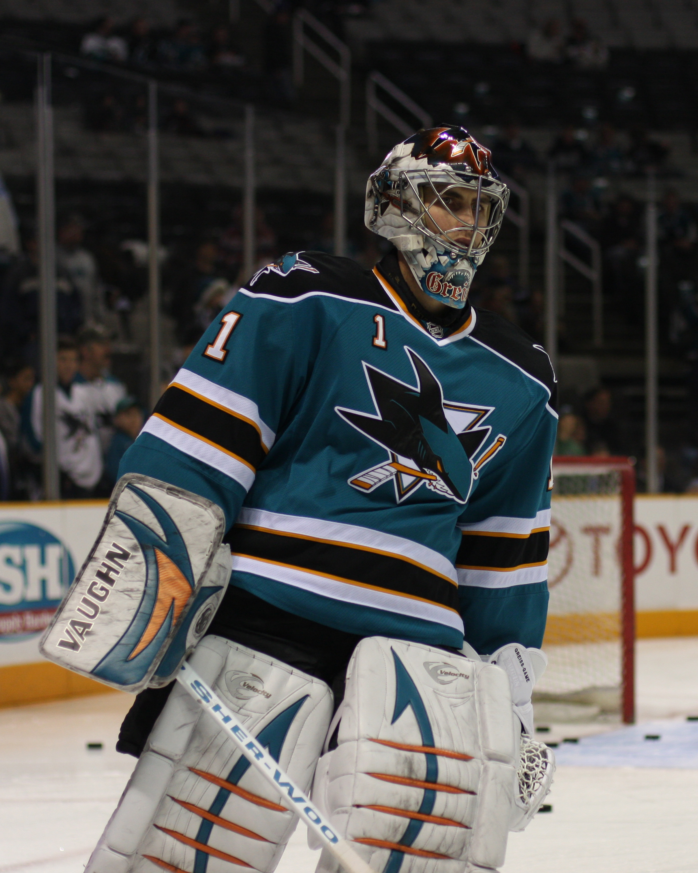 Thomas Greiss during a Pre-Game skate with the San Jose Sharks